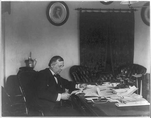 Title John Wanamaker Contributor Names Johnston, Frances Benjamin, 1864-1952, photographer Created / Published c1890 July 22. Format Headings Photographic prints--1890. Portrait photographs--1890. Notes - Title and other information transcribed from caption card and item. - Frances Benjamin Johnston Collection (Library of Congress). - No. 2318622. Medium 1 photographic print. Call Number/Physical Location LOT 11735 [item] [P&P]